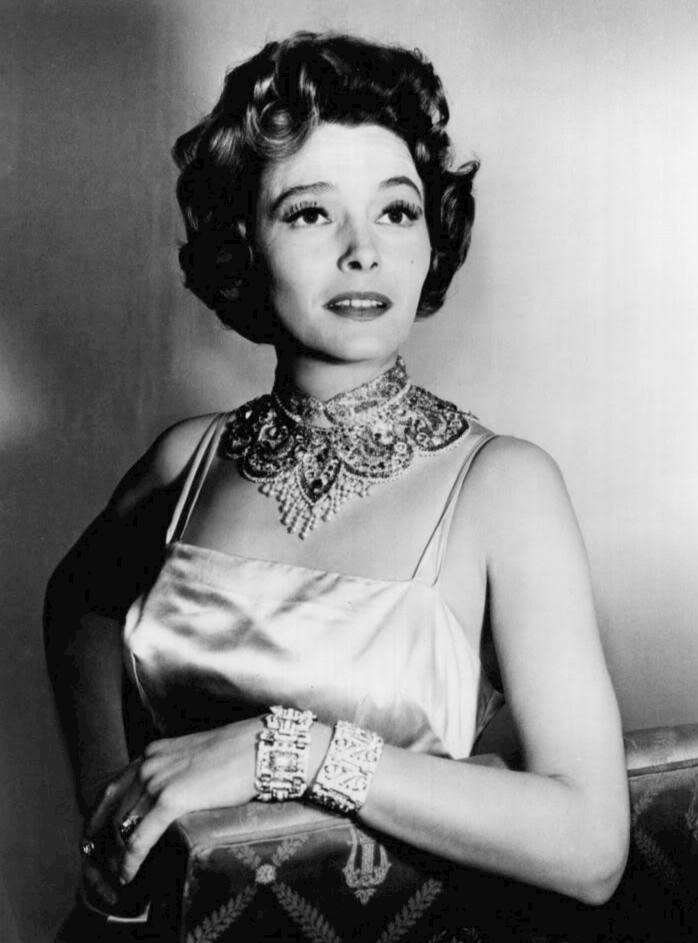 Photo of Patricia Neal guest-starring as a nightclub owner in an episode of The Untouchables.